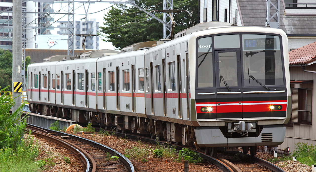 Meitetsu 4000 series EMU between Yada Sta. and Moriyama-Jieitai-Mae Sta.